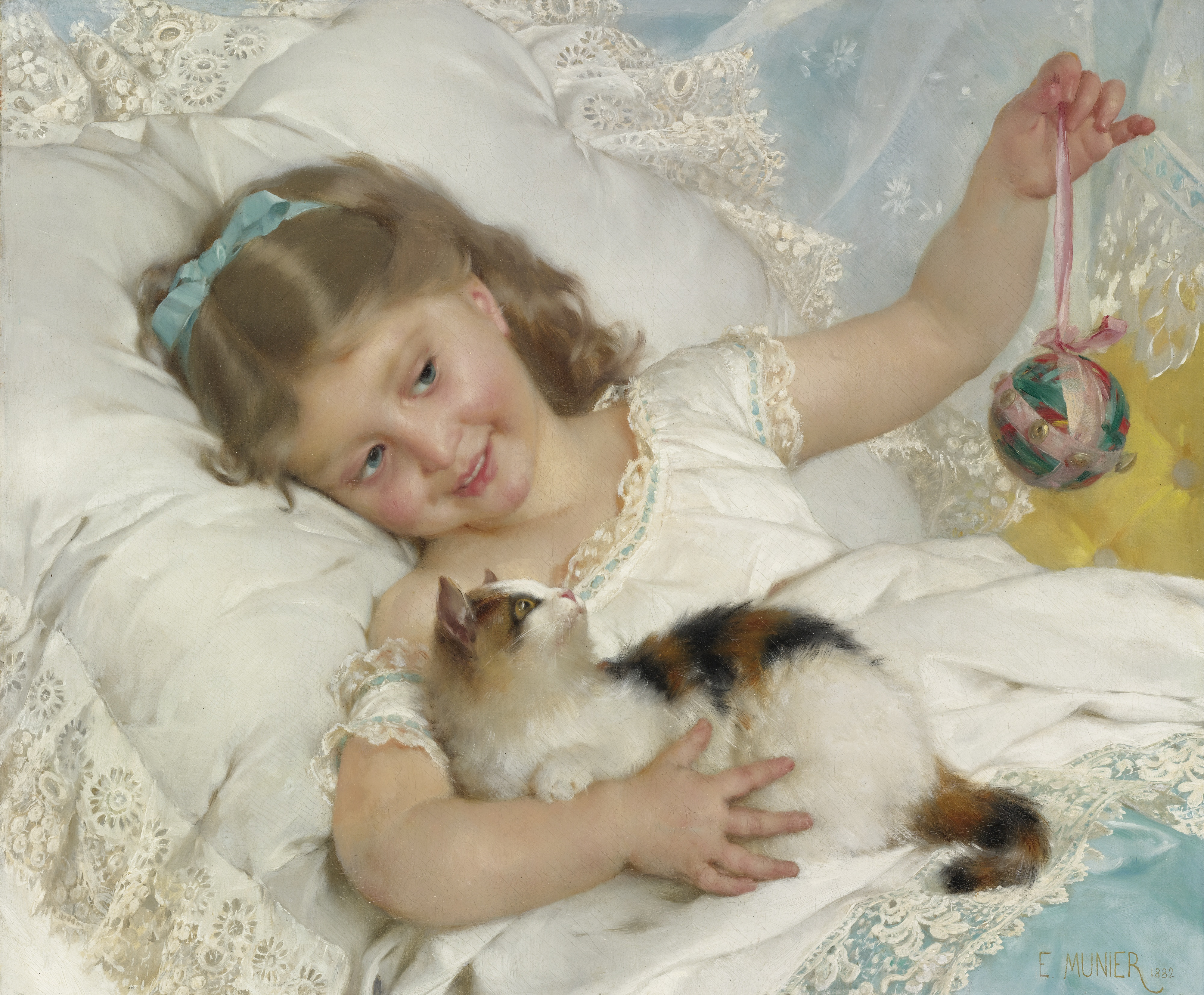 Young girl and cat; oil on canvas 21 1/2 x 25 3/4 inches Signed and dated 1882 (l.r.)